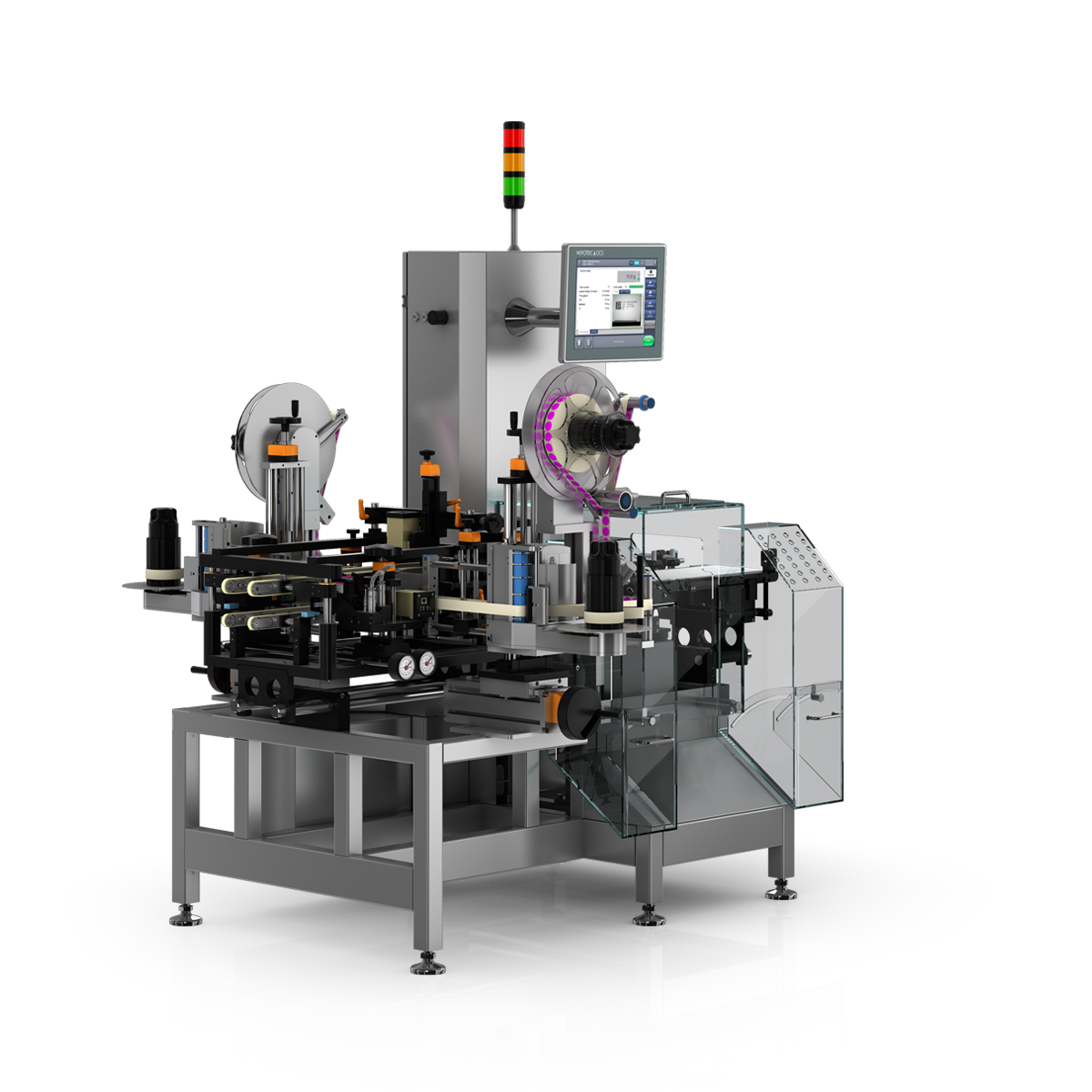 Serialisation machine TQS-HC-A, equipped with Tamper-Evident labeling systems on both sides.